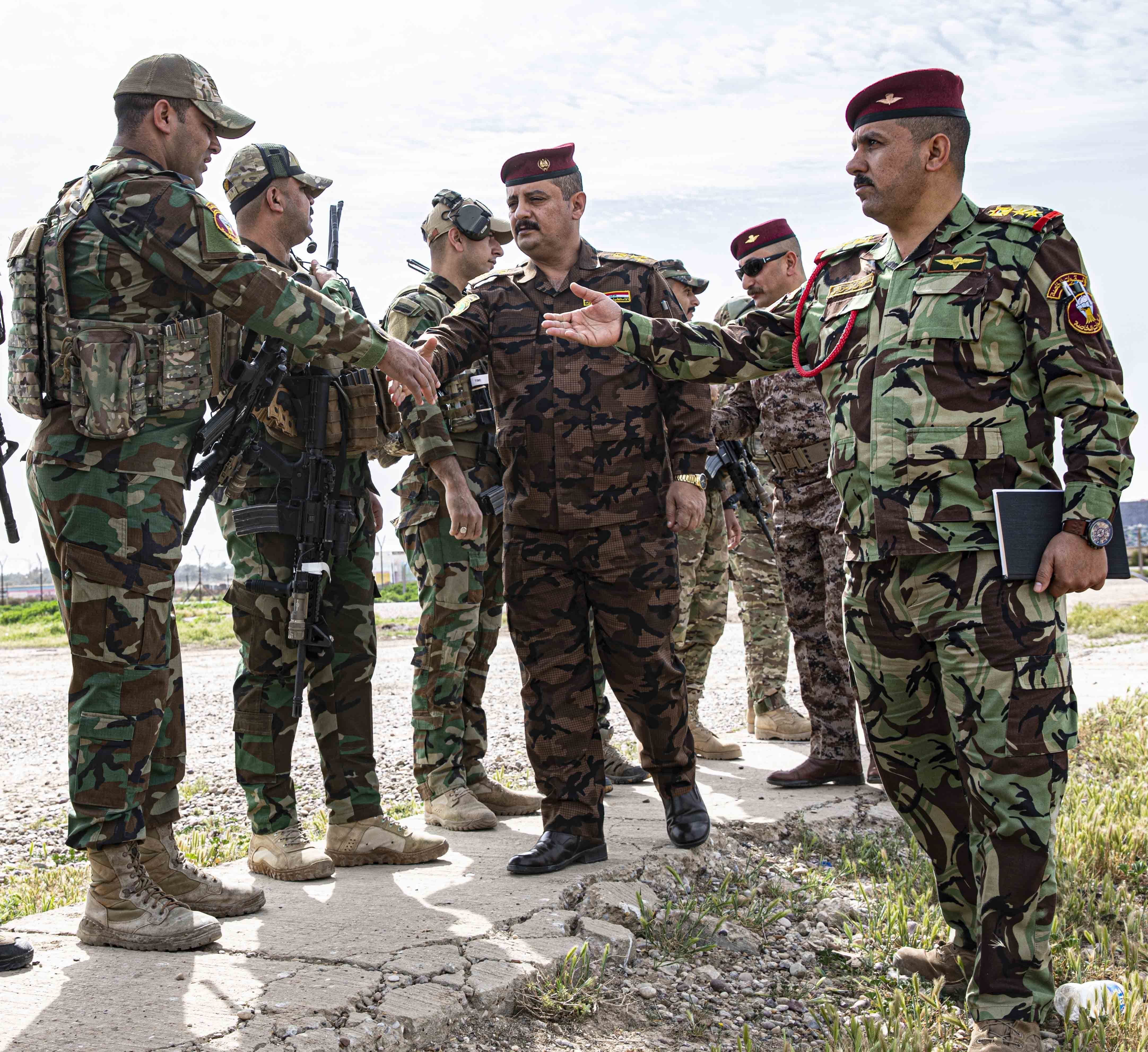 Members of the Qwat al Khasah, The Special Forces of Iraq, greet higher ranking officers who have to come to speak to their troops as they train for an upcoming mission with United States Special Operations Forces at Camp Taji, March 7, 2020. The QK are leading a coalition of nations in the fight against Daesh by interrupting enemy operations to continue the further stabilization of Iraq. (U.S. Army photo by Sgt. Robert Douglas).